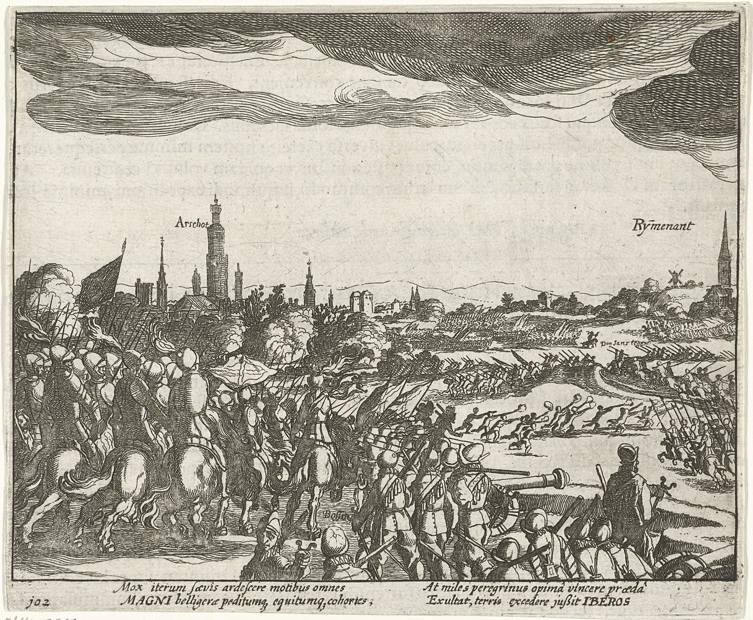 Batle between Rijmenam and Aarschot 1 augustus 1578